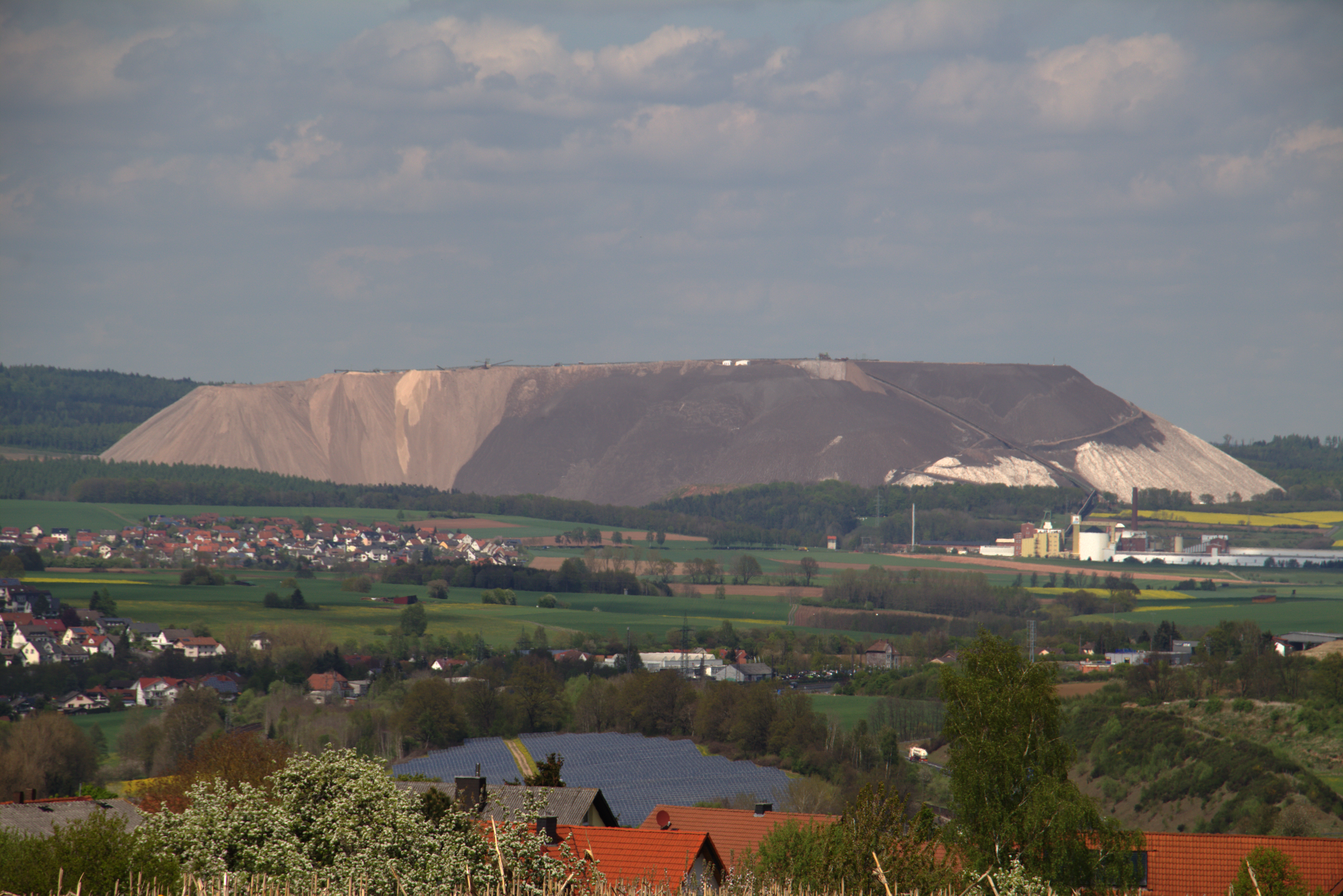 Neuhof-Ellers, Monte Kali seen from (near) Keutzelbuch, Hesse, Germany